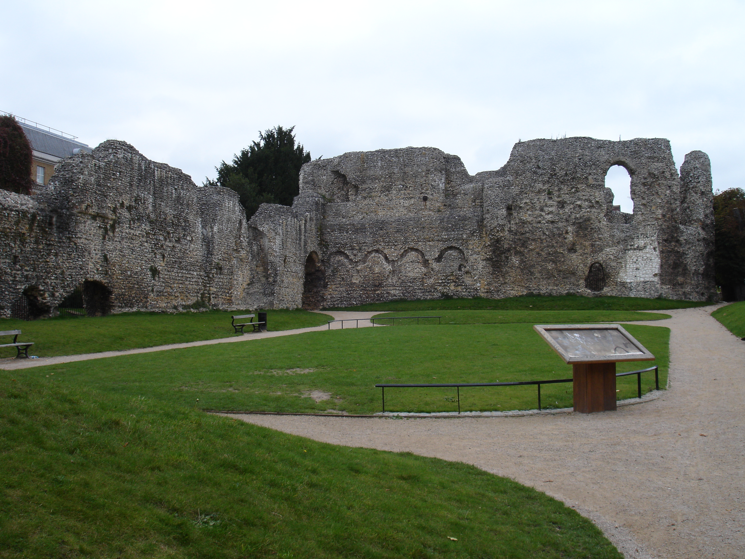 The ruins of the monks dormitory of Reading Abbey, in the English town of Reading. For more information, see Wikipedia article Reading Abbey.